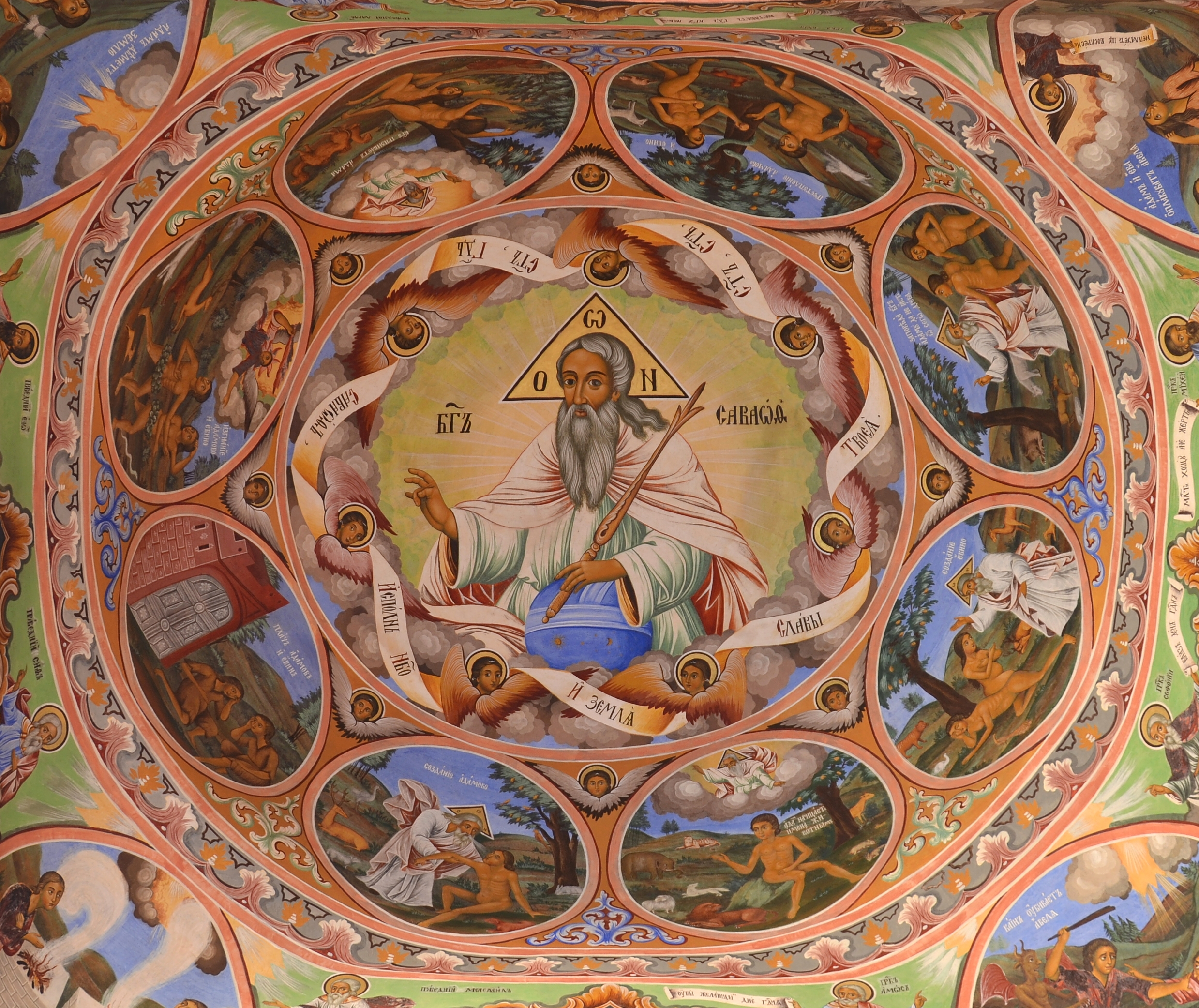 Rila Monastery (Рилски манастир), Bulgaria - fresco